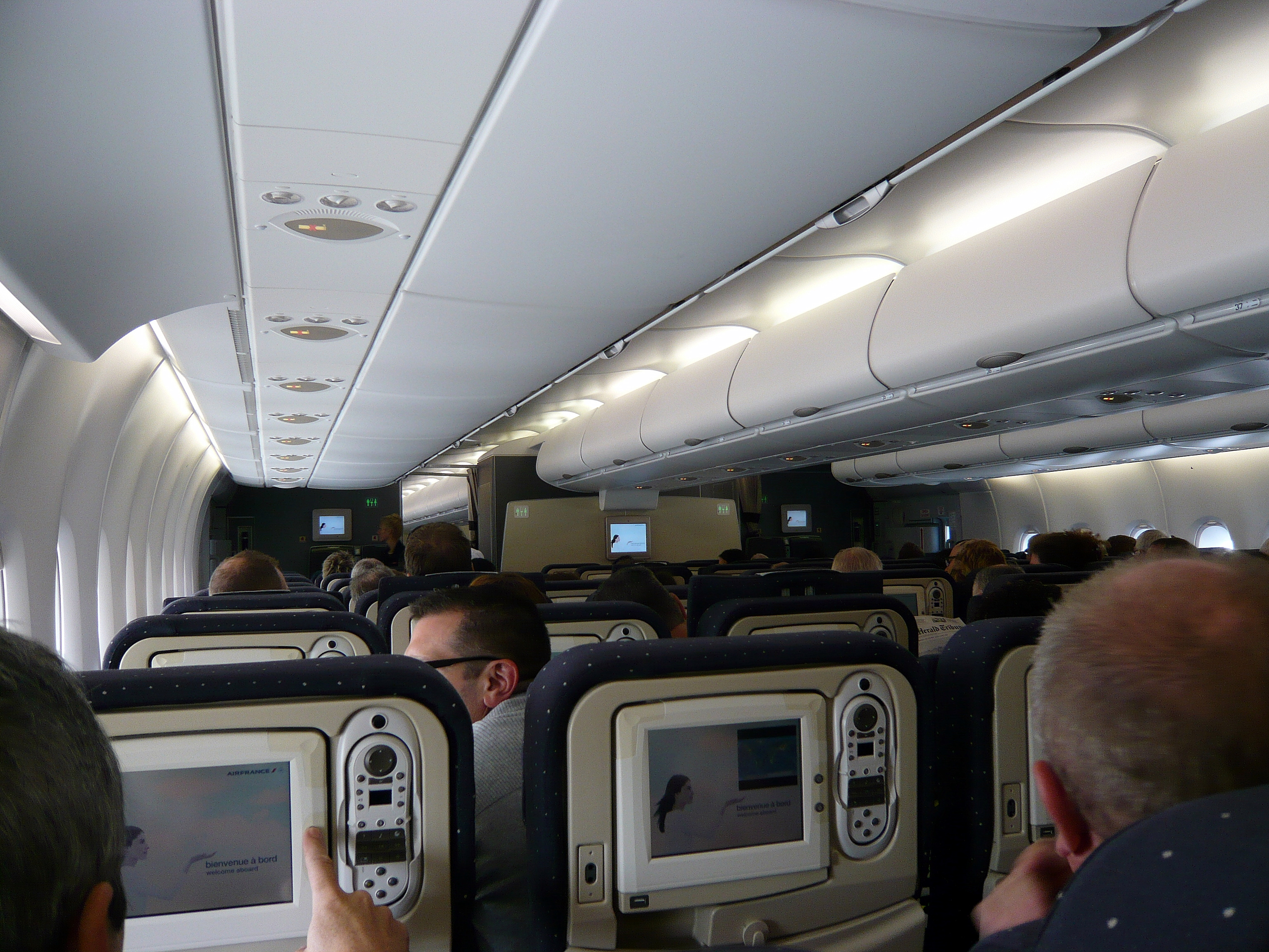 Onboard Air France A380 F-HPJC